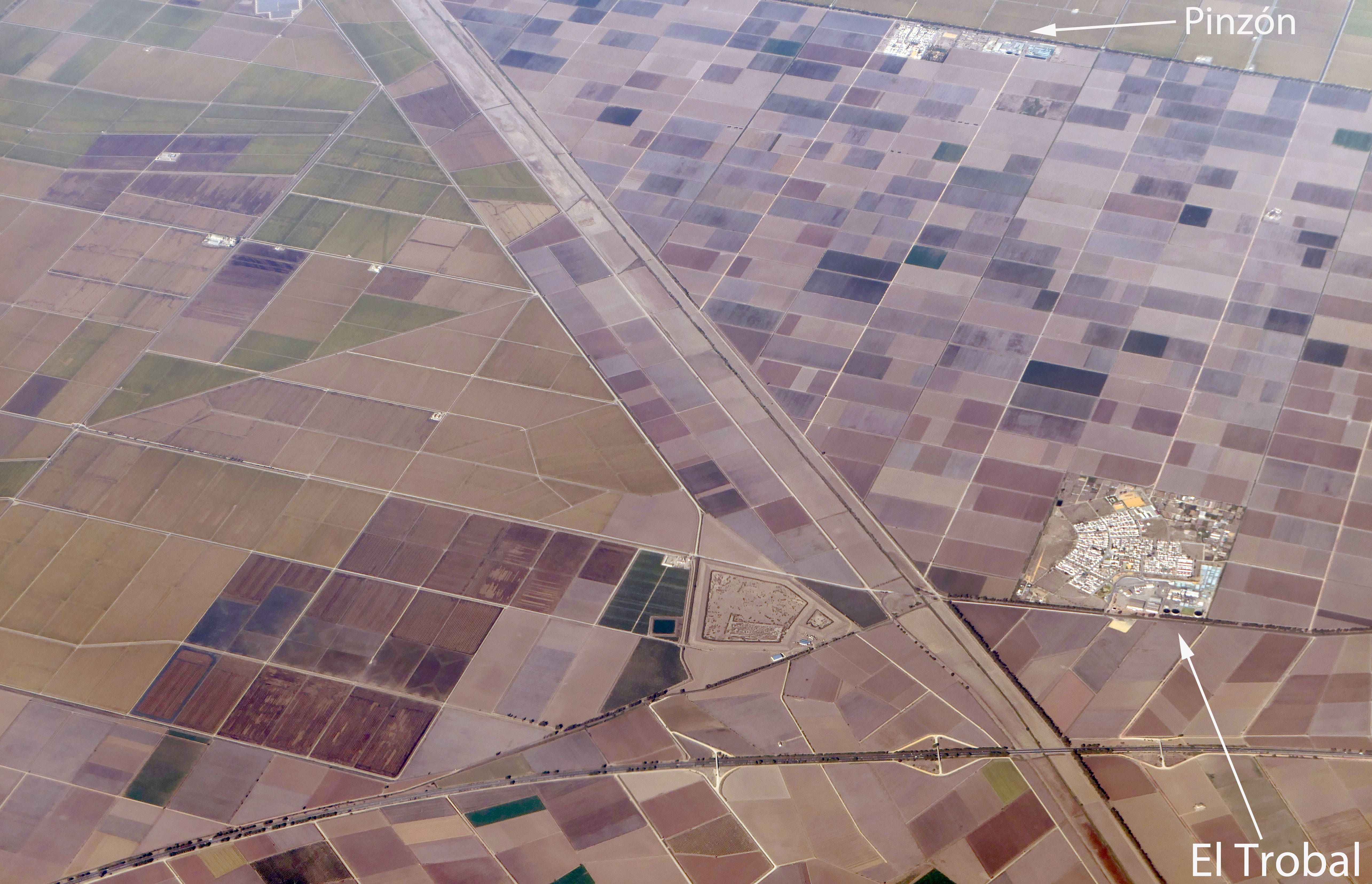 A aerial view of El Trobal, near Seville in Andalusia. Also includes the village of Pinzón.